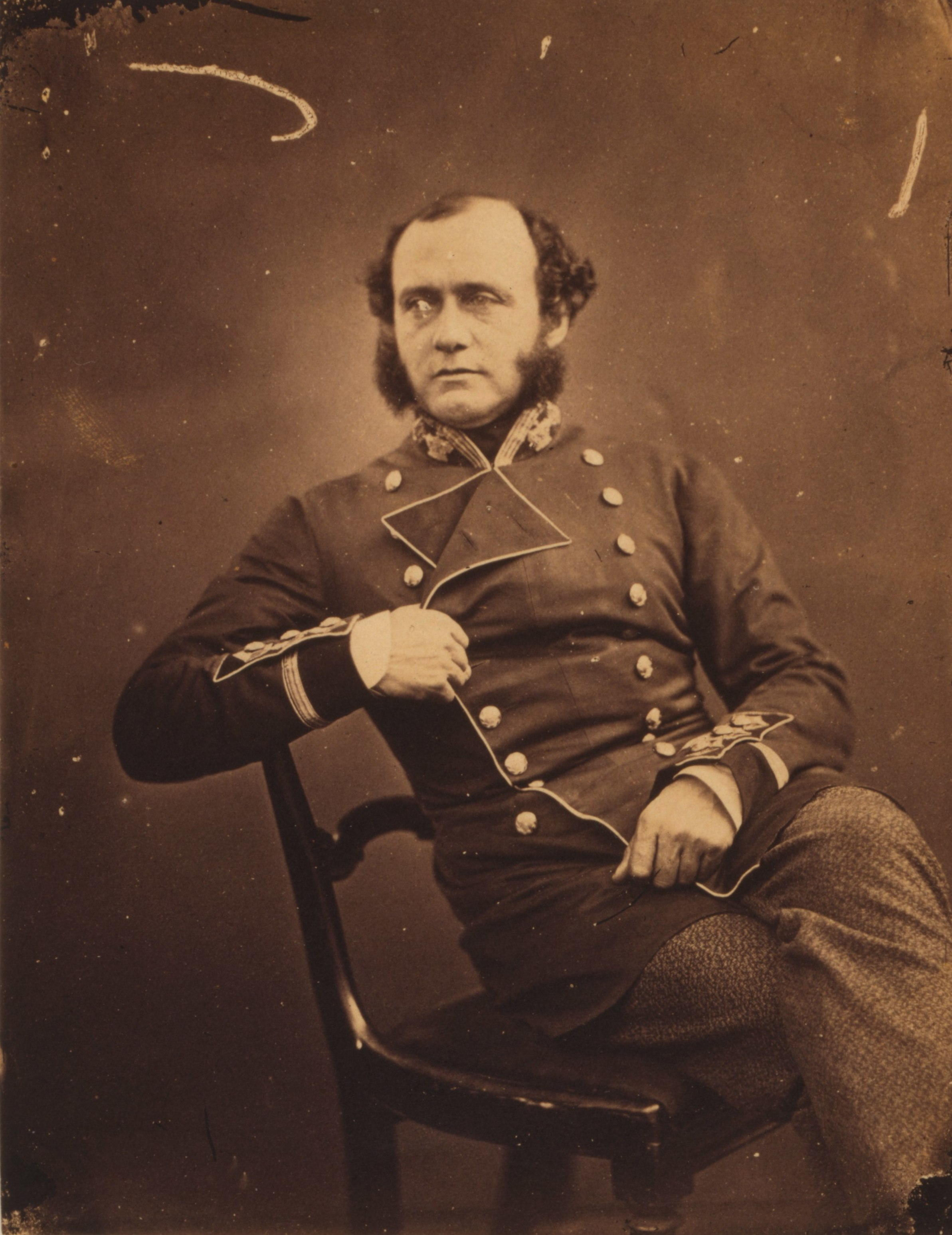 Title: Major General Charles Ashe [sic] Windham Abstract/medium: 1 photographic print : salted paper ; 15.9 x 12.1 cm.